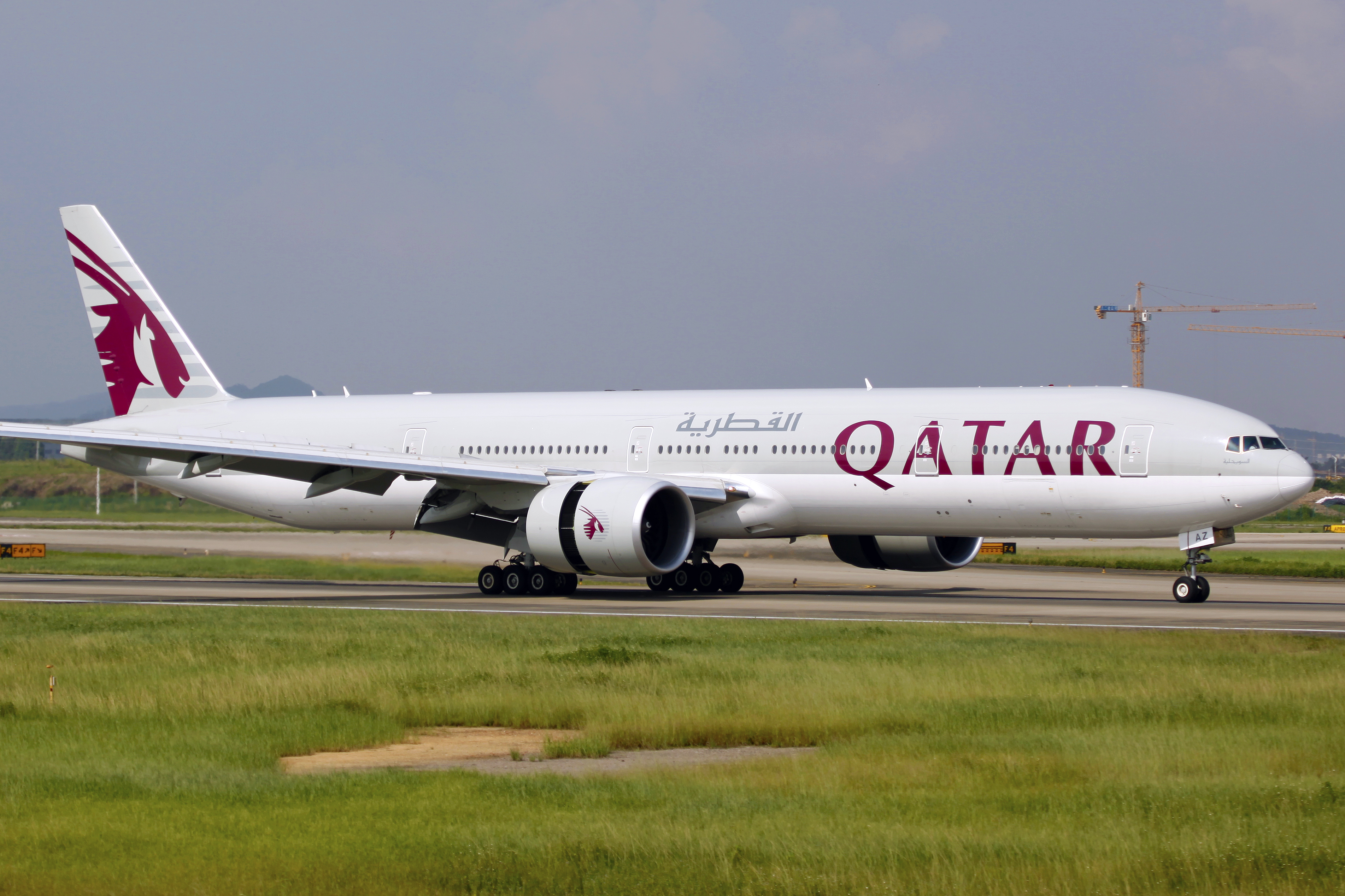 A7-BAZ | Qatar Airways | Boeing 777-3DZ(ER) | Guangzhou Baiyun International Airport [CAN]